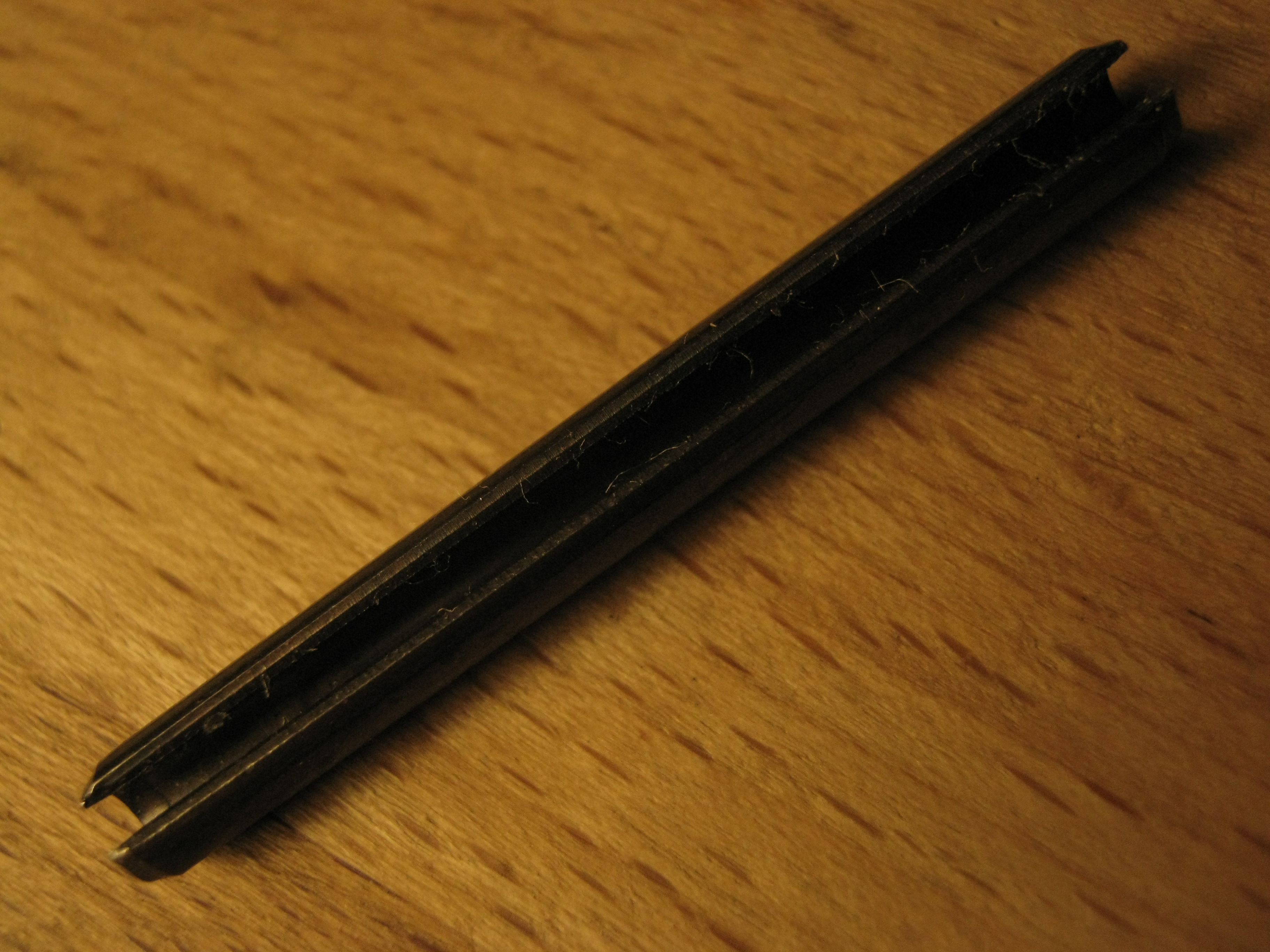 Klemmhülse